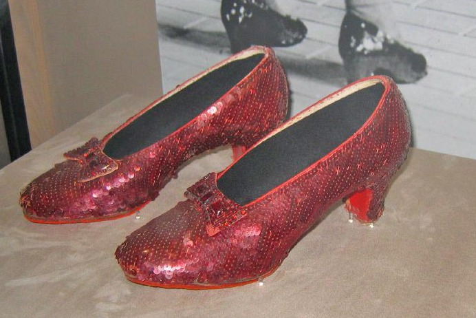 The pair of original Ruby slippers used in The Wizard of Oz on display at the American History Museum in Washington DC